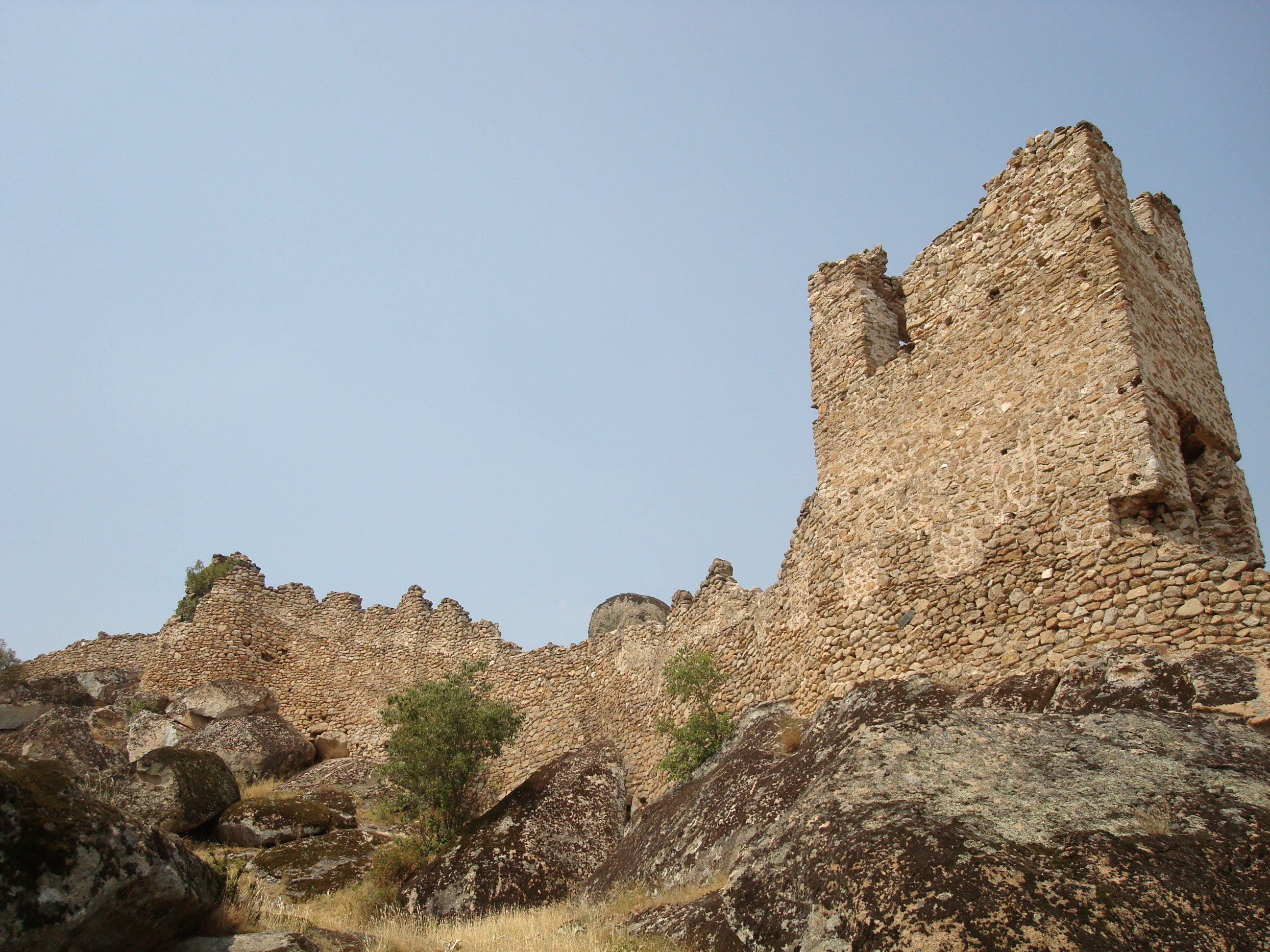 Kings Marko ruins of castle near Prilep, Macedonia.